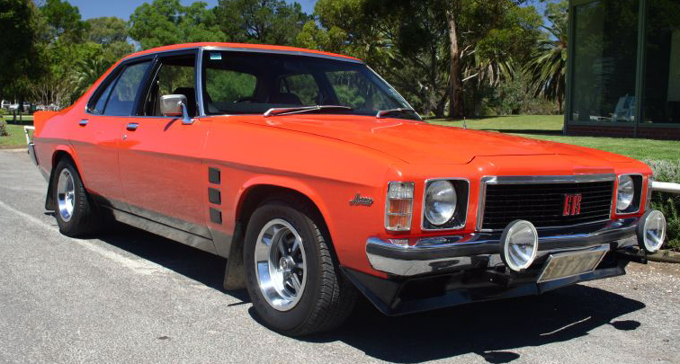 1974–1976 Holden HJ Monaro GTS sedan, photographed in Australia.